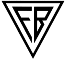 Logo FB "Łucznik" Radom